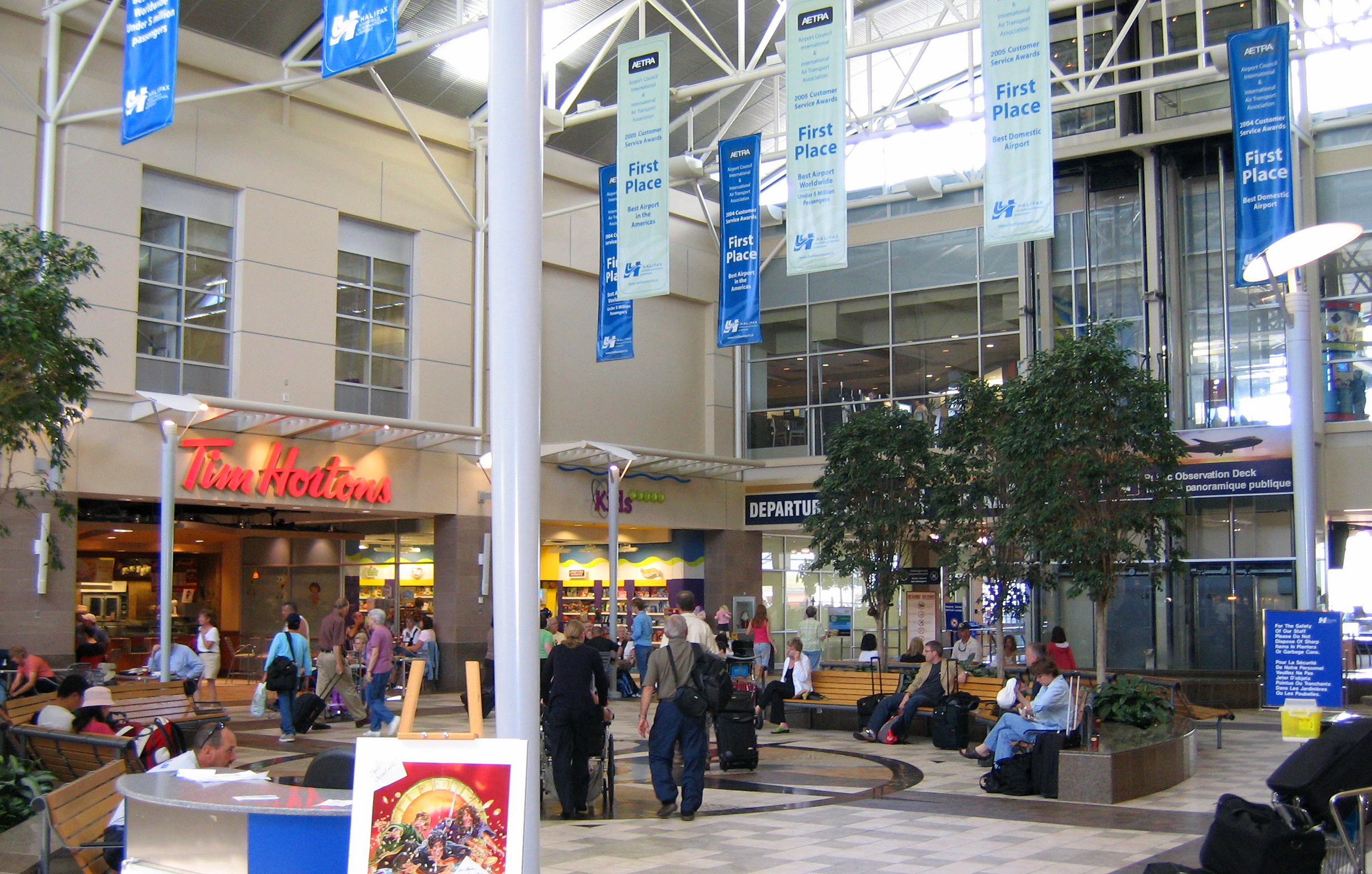 Departure area and shops, Halifax International Airport